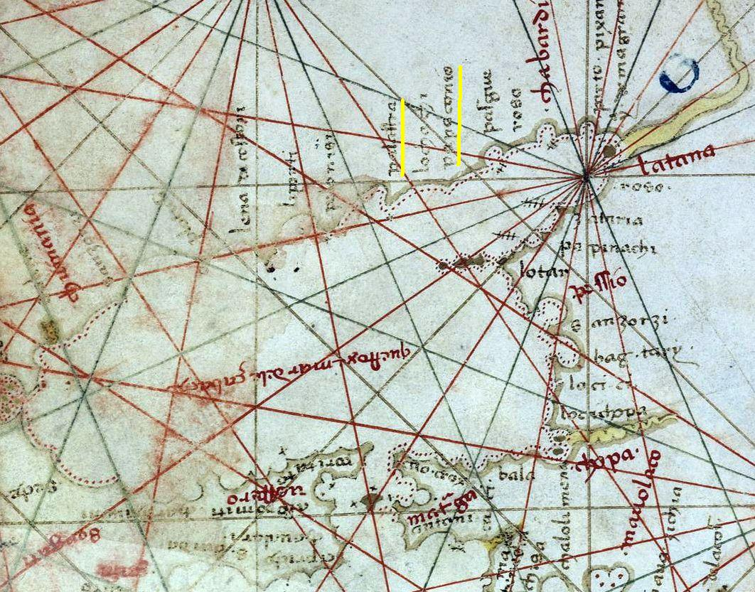 Nautical chart of the Black Sea in 1436 by Andrea Bianco (fragment)